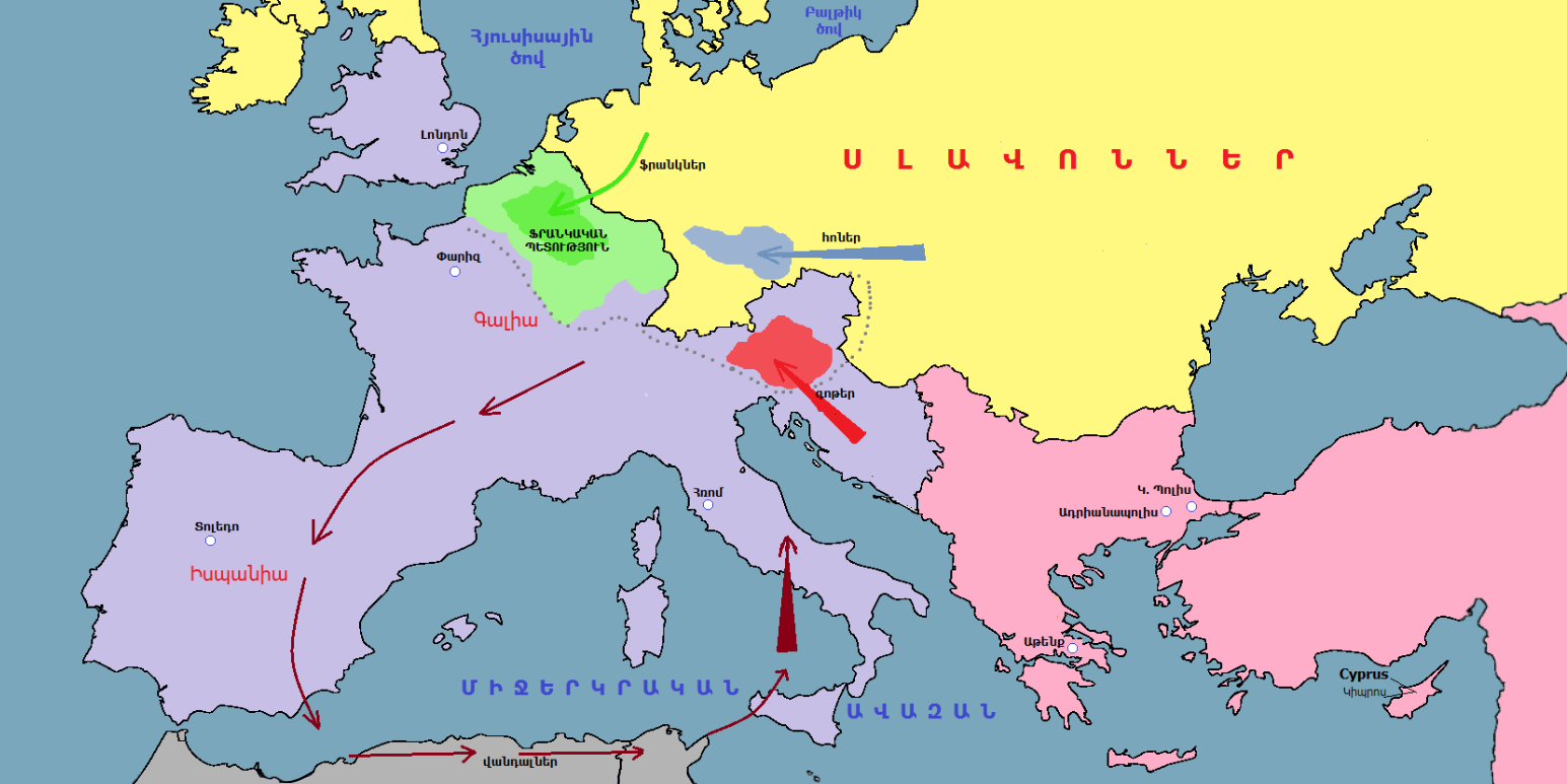 Roman Empire